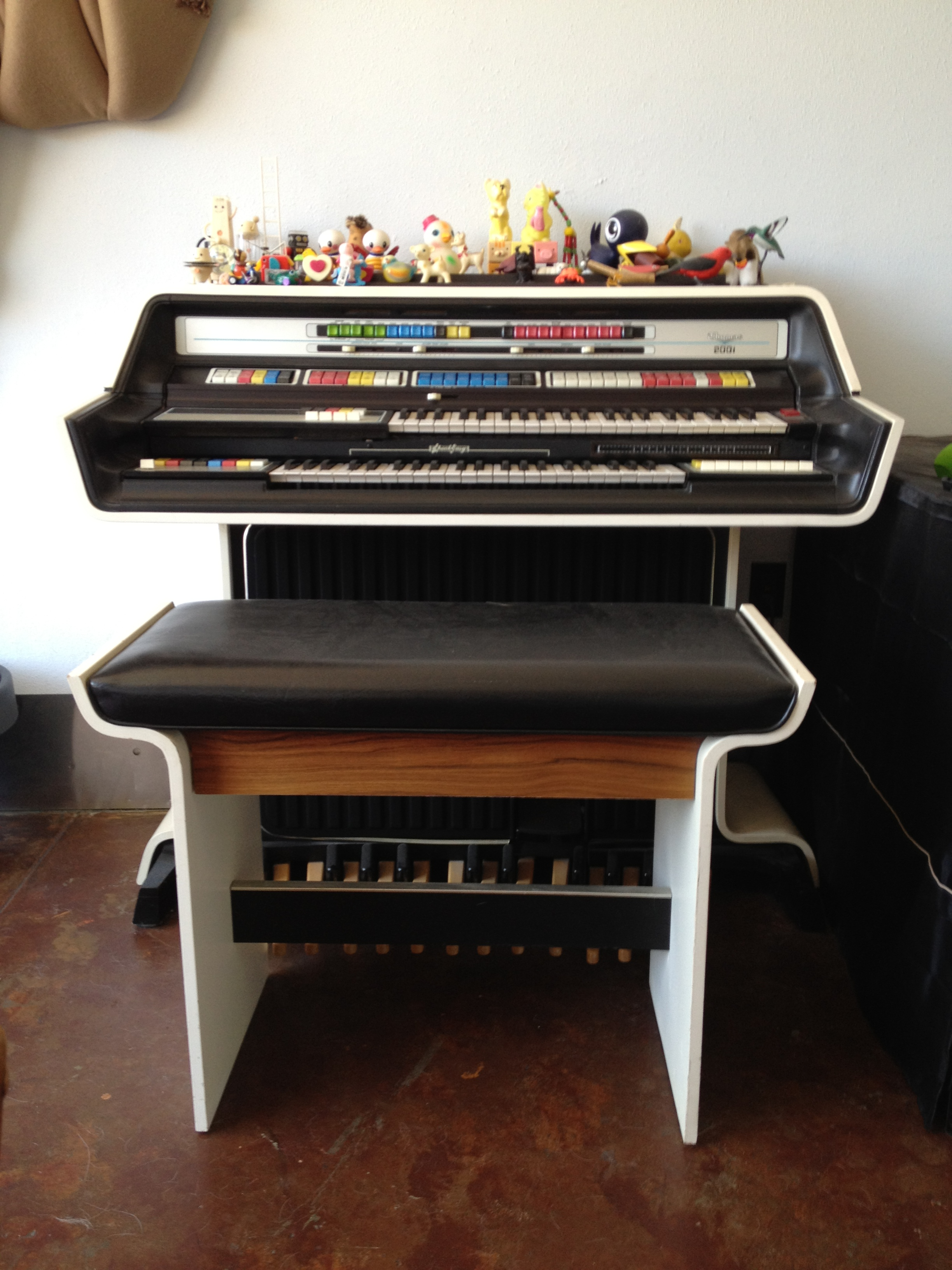 Thomas 2001 Organ Free organ at SF/Oakland